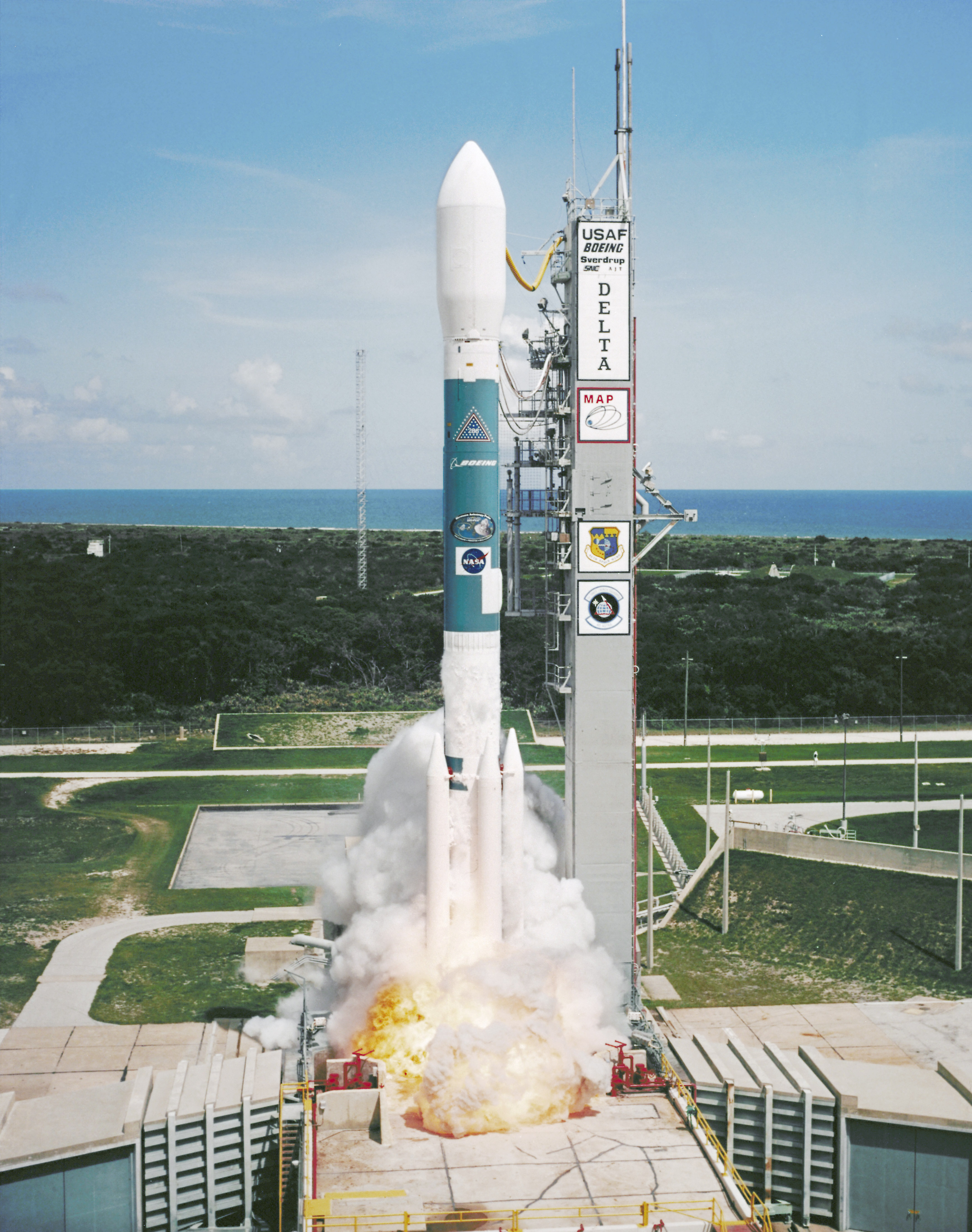 The WMAP Spacecraft was launched on June 30, 2001. It was an almost perfect launch, on time to the second. Photo taken at Kennedy Spaceflight Center, Launch Pad 17B.